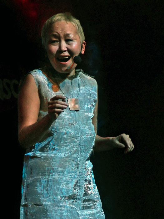 Tuvan singer Sainkho Namtchylak at Moers jazz festival, 2004